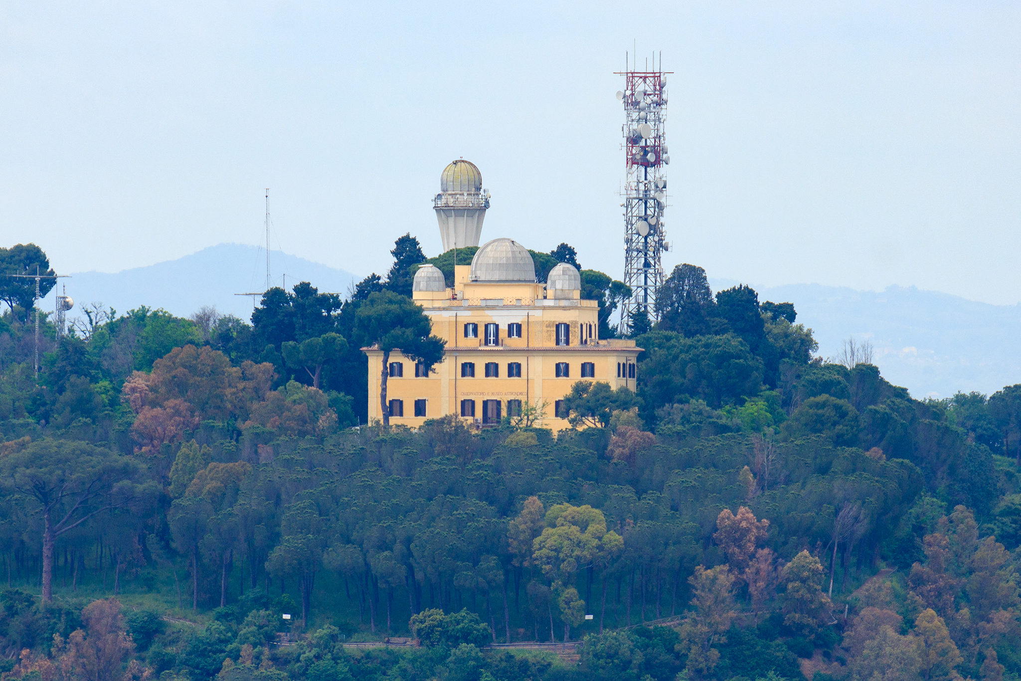 The astronomical observatory of Rome on Monte Mario, as seen in a long-range telephoto shot from the Dome of St. Peter's cathedral. The observatory, which was inaugurated in 1938, was built in the old Villa Mellini. Three domes were constructed on top of the house, which was originally built in the 15th century for Cardinal Mario Mellini. Behind the observatory building, the solar tower from 1951 can be seen. Although the building is no longer used as an active observatory, it is now home to the Istituto Nazionale di Astrofisica.